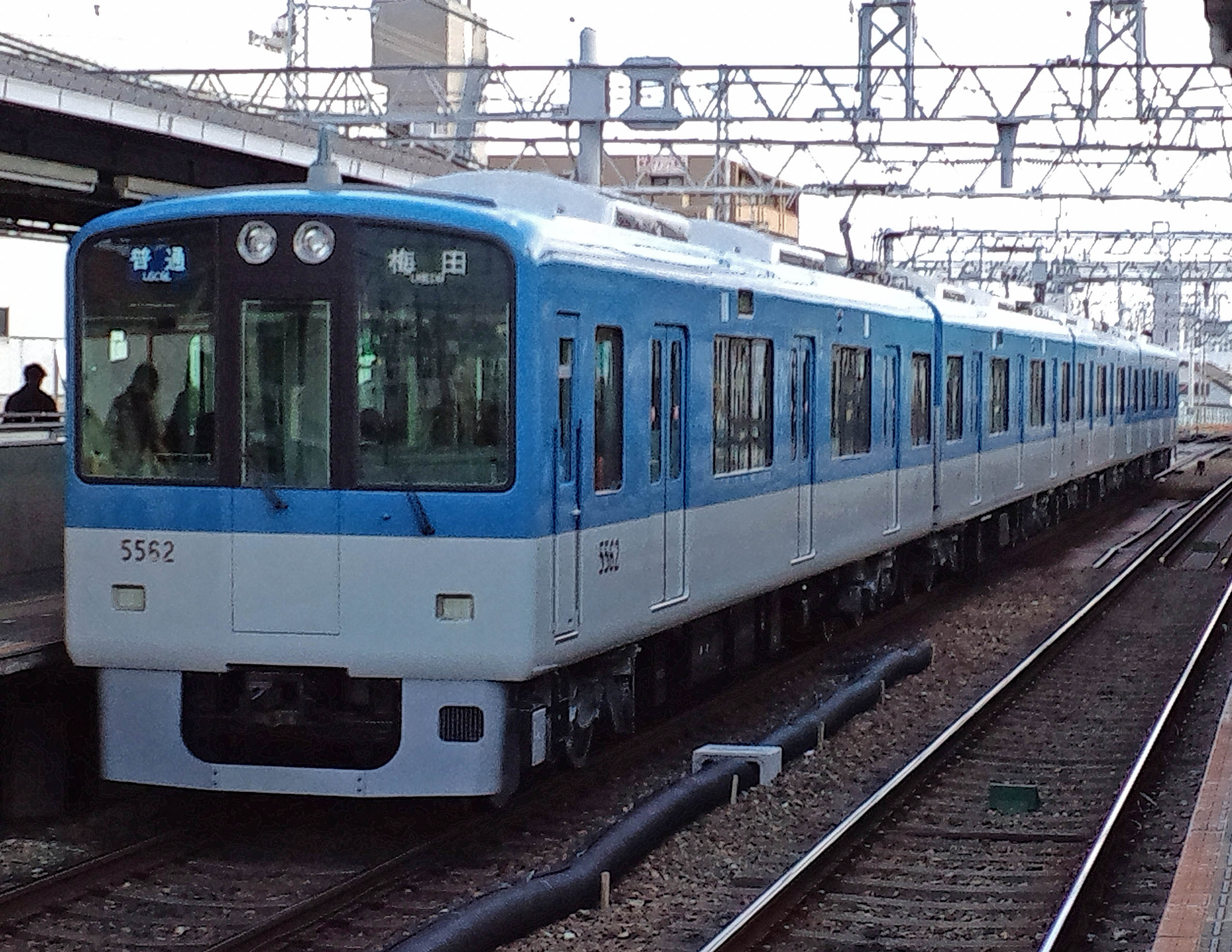 Hanshin Railway 5550 series EMU at Koshien Station